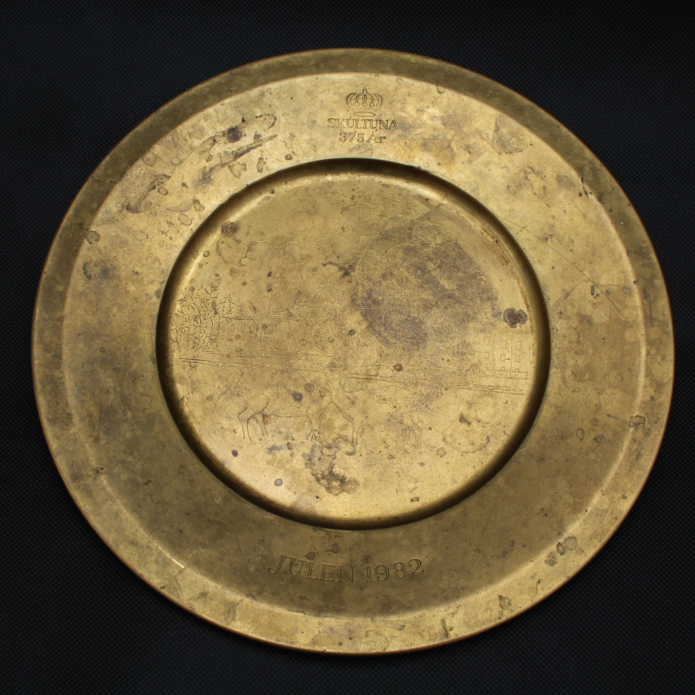 Decorative plate of brass manufactured in Sweden for Christmas 1982 by Skultuna company.